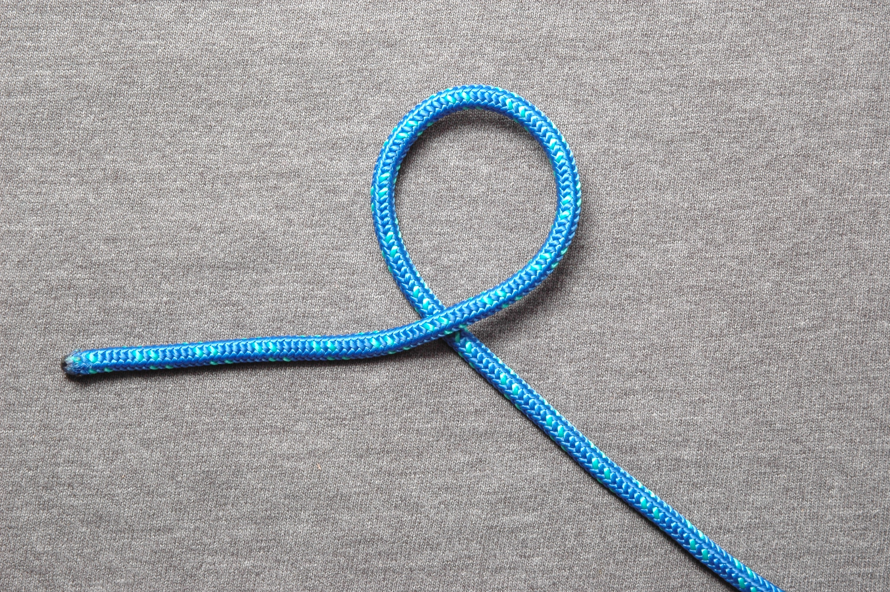 Step 1 in tying a Marlinespike hitch; form an overhand loop.